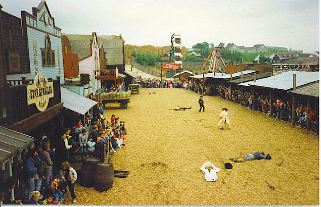 Gunfight at the American Adventure near Shipley on the site of the "Miller-Mundy's" estates.